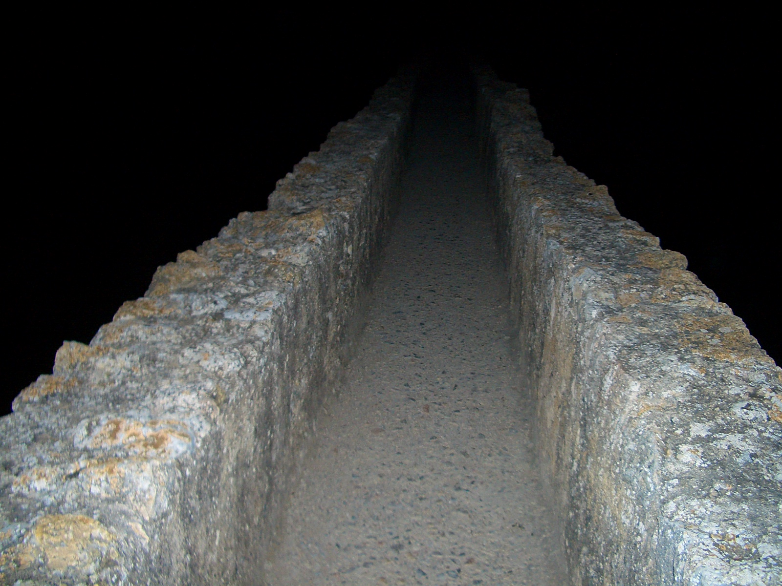 Tarragona Aqueduct (el Pont del Diable)